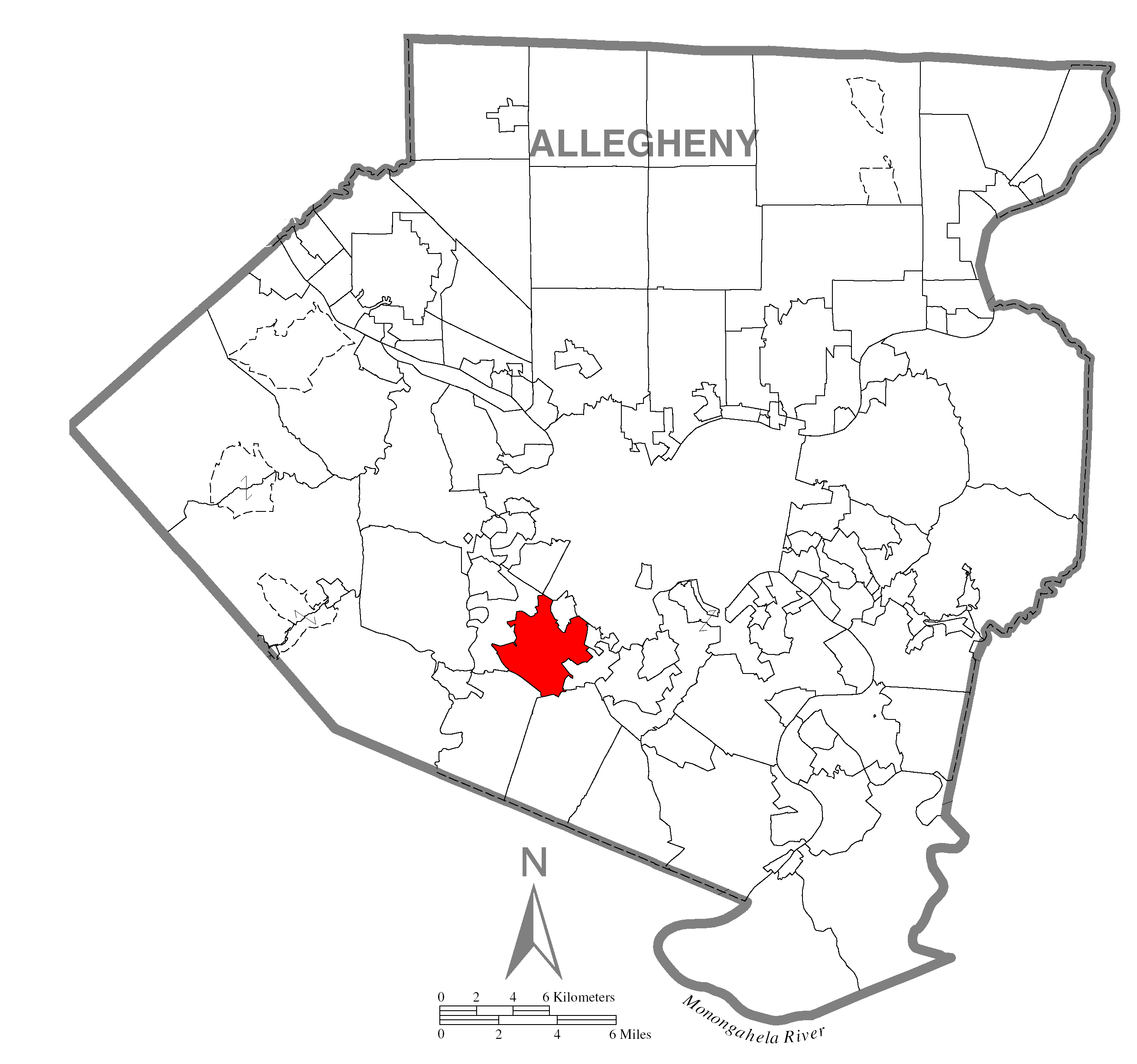 A map of Allegheny County showing Mount Lebanon Township, Pennsylvania (alternate) highlighted on the map.